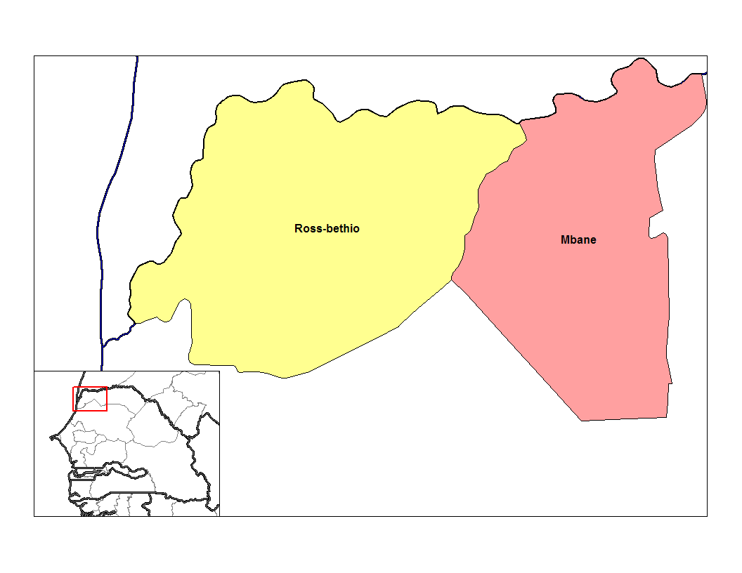 Map of the arrondissements of Dagana department in Senegal.